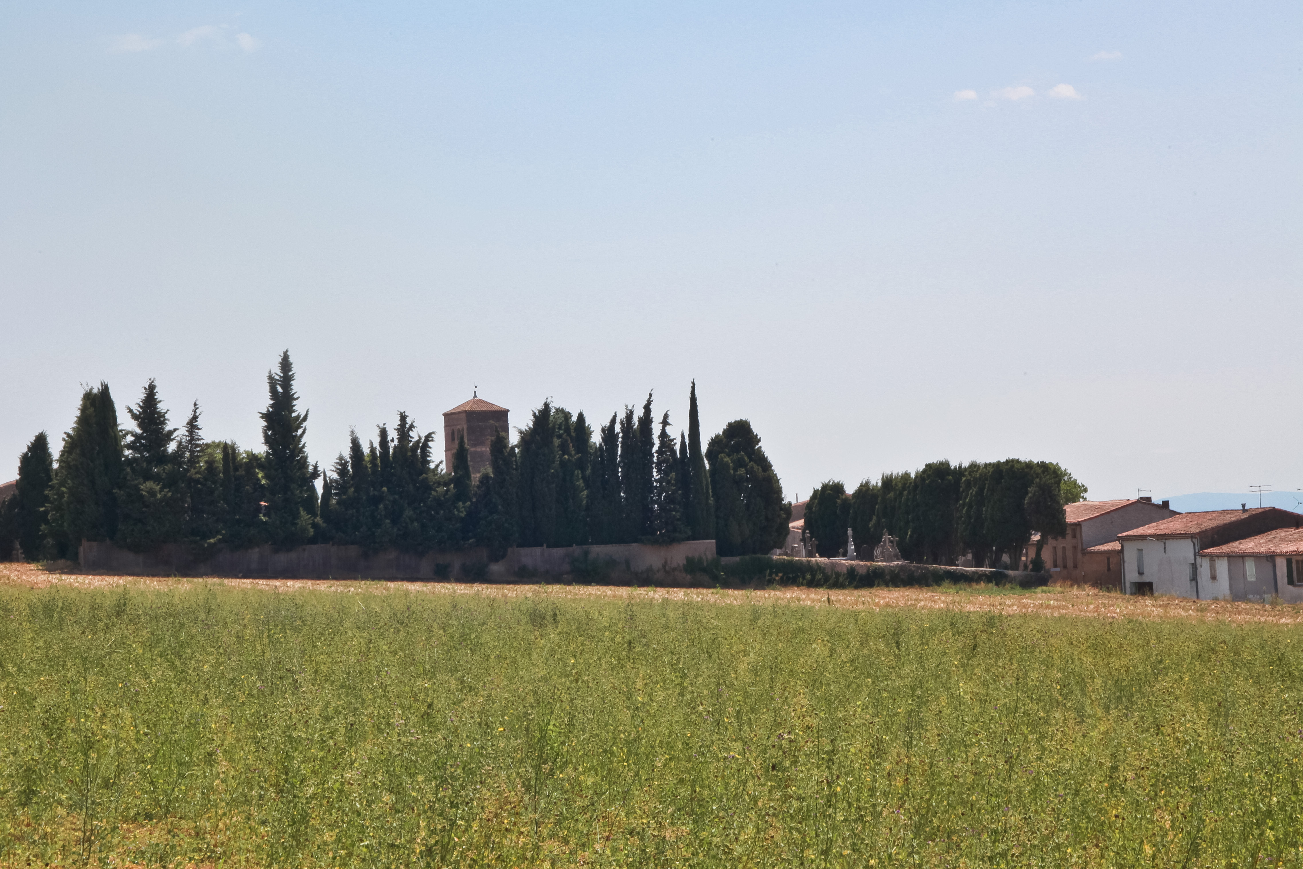 Carlipa village